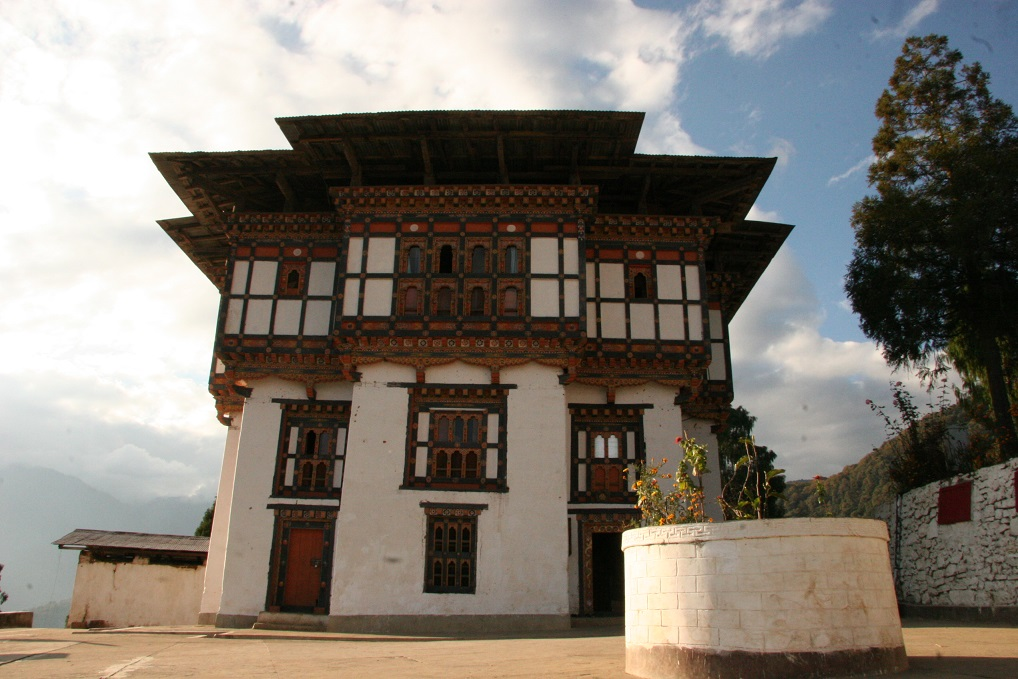 photo of the Sonam Gatshel (lower) temple at Nalanda Buddhist Institute, Punakha Dz Bhutan 2013, taken from main courtyard